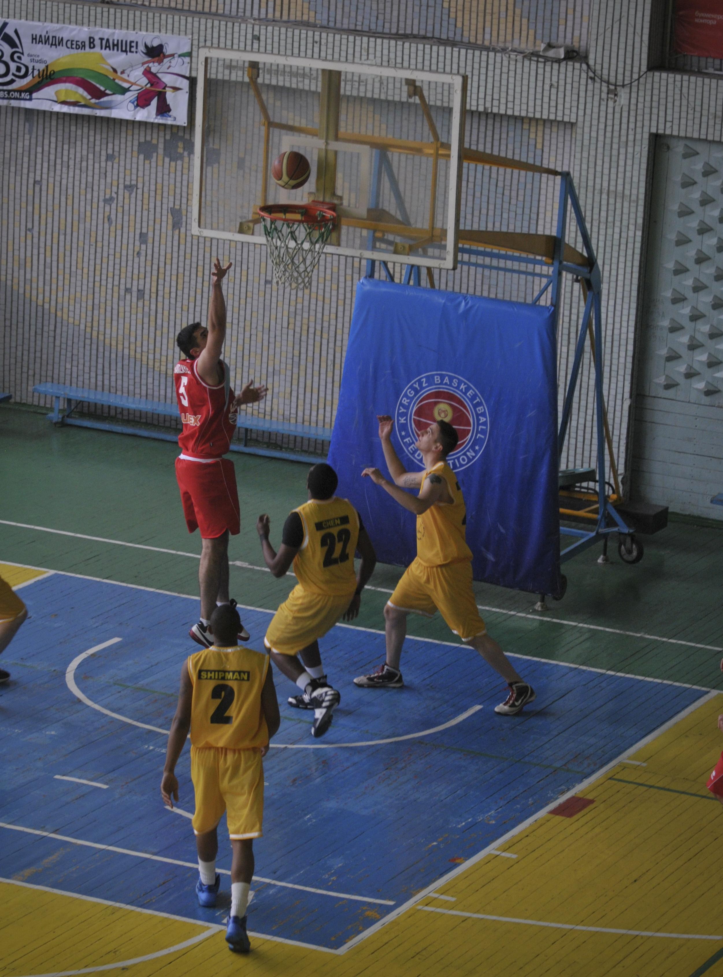 Transit Center at Manas men's team faces off against the men's team from Azerbaijan in a game at the Kojomkul Sports Palace here March 19. The "Liberandos" men's team played a good game against their opposing team, helping to foster a good sportsmanship and team work with the local people.